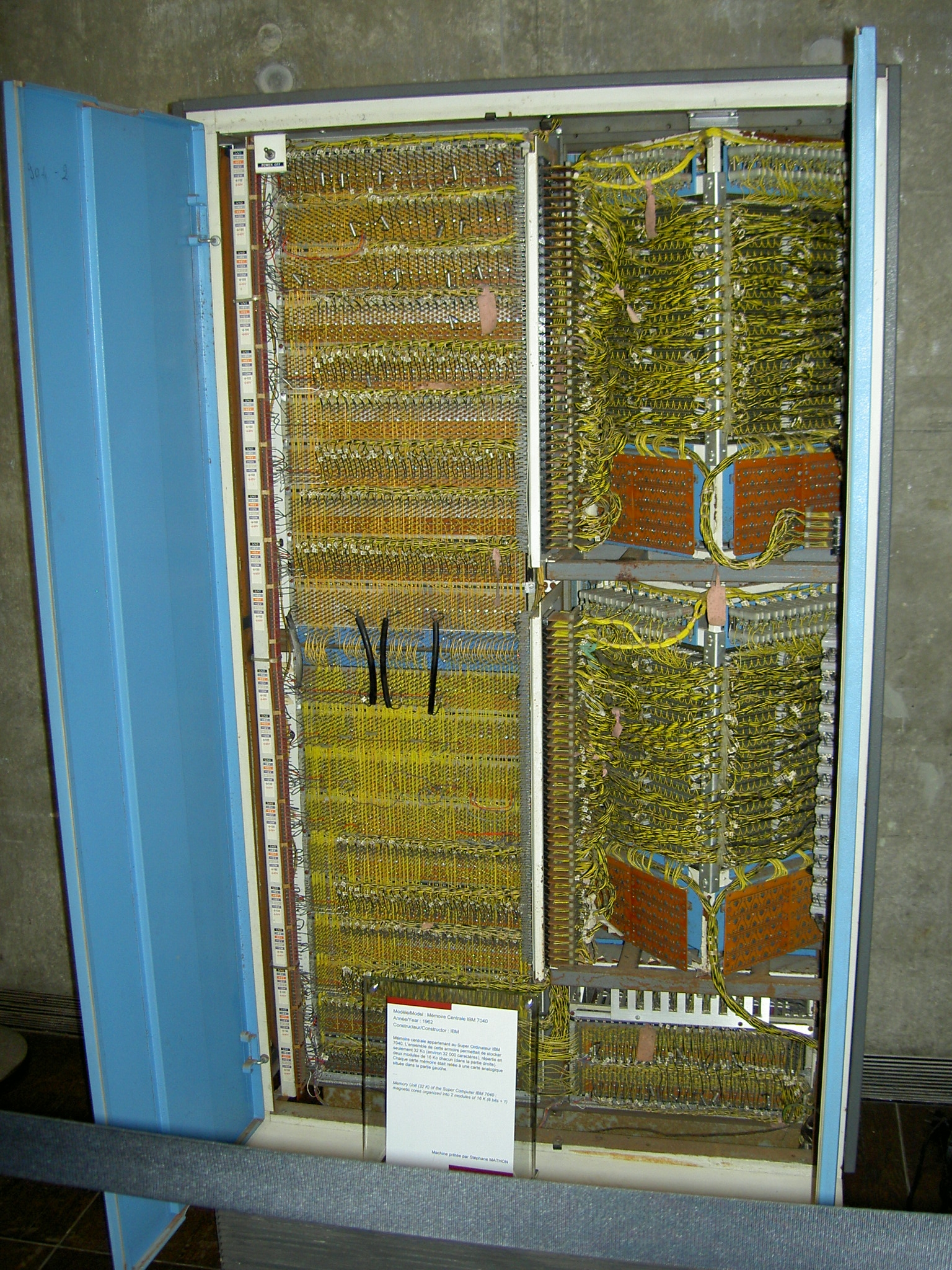 Memory of a IBM 7040 (2 x 16K, at the right) (1962) (Note: the IBM 7040 memory was organized as 36 bit words.)